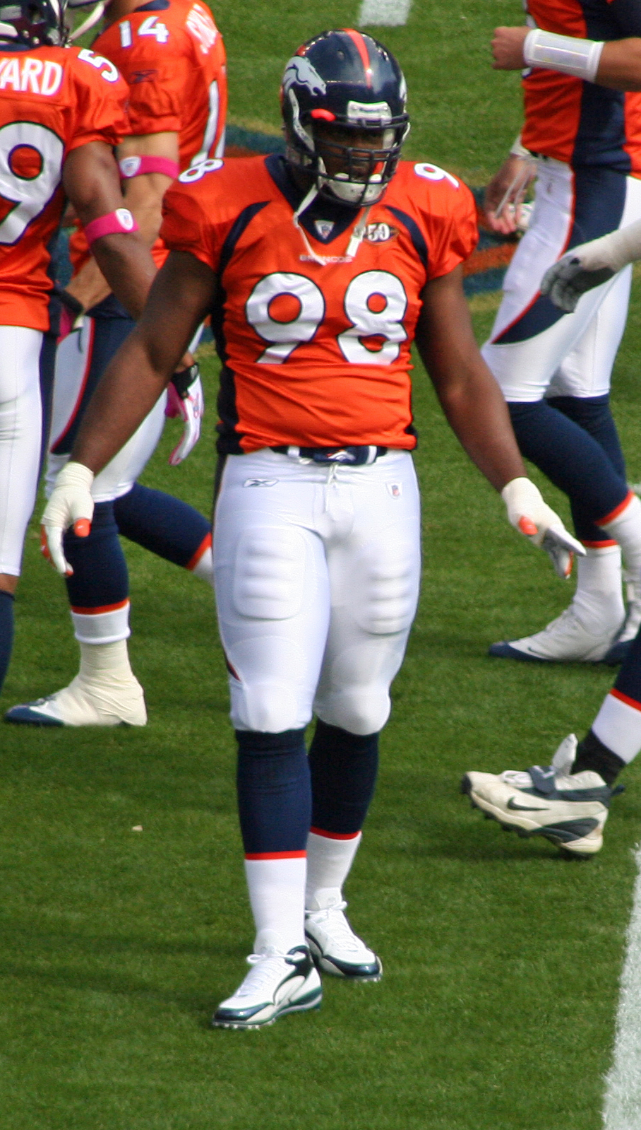 Ryan McBean, a defensive lineman with the Denver Broncos American football team.